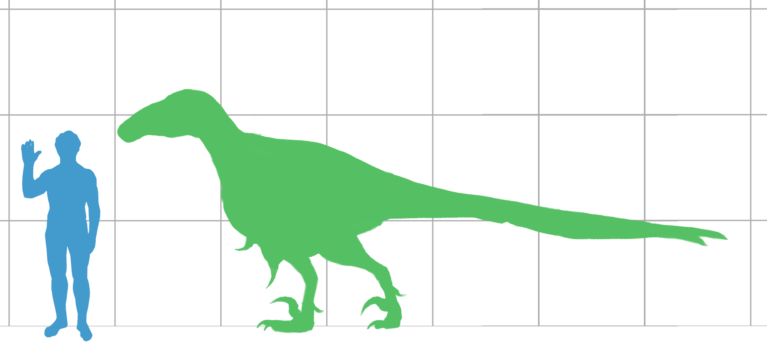 Size chart for Utahraptor ostrommaysorum. Proportions follow the related Achillobator. Figure scaled based on the specimen BYU 15465. Erickson, Rauhut, Zhou, Turner, Inouye, Hu and Norell, 2009. Was dinosaurian physiology inherited by birds? Reconciling slow growth in Archaeopteryx. PLoS ONE. 4(10), e7390.